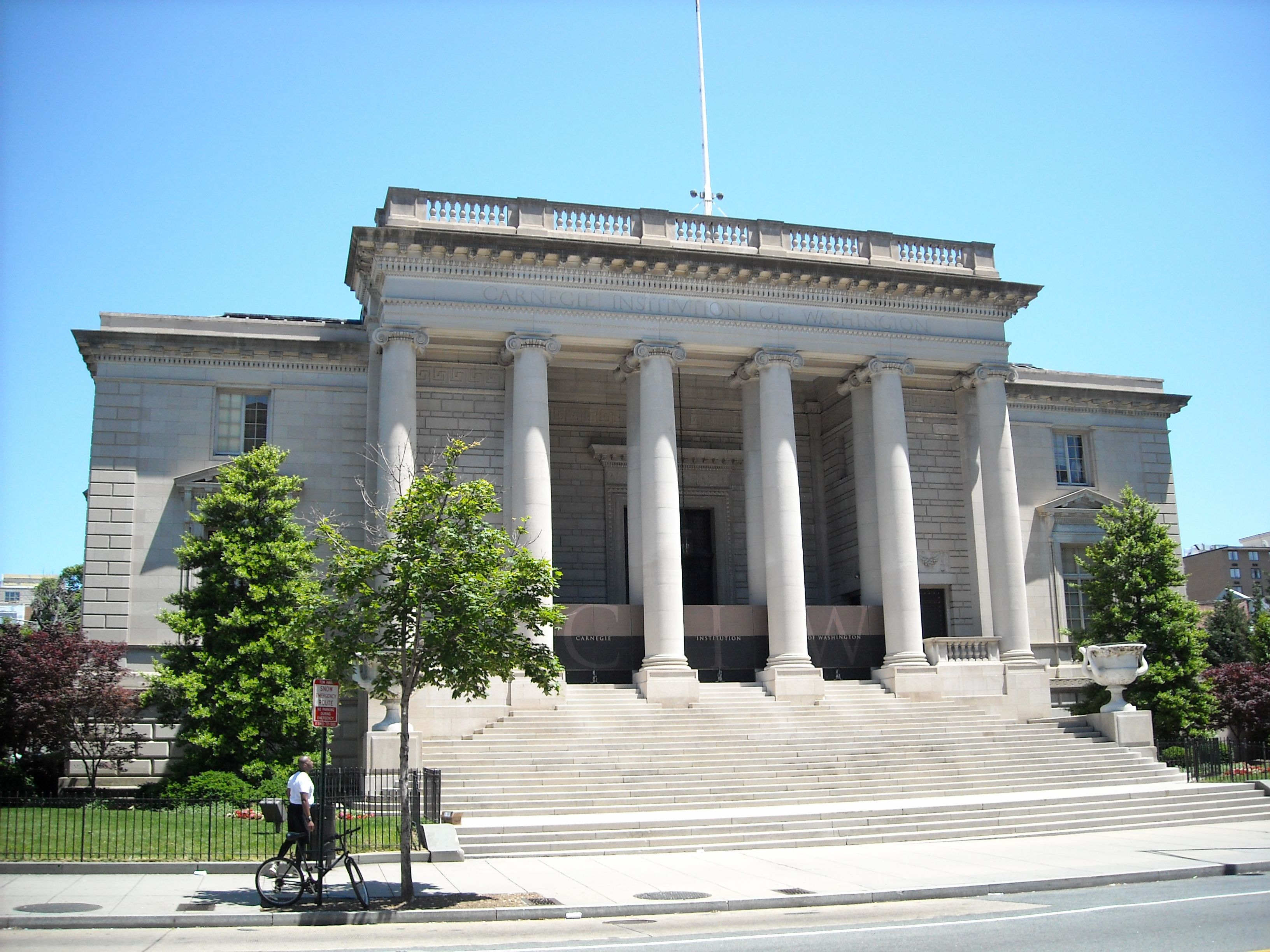 The Administration Building, Carnegie Institution of Washington is located at 1530 P Street, N.W., in the Dupont Circle neighborhood of Washington, D.C. The Beaux-Arts style building was designed by the Carrère and Hastings architectural firm in 1910. The Administration Building was declared a National Historic Landmark in 1965 and is designated as a contributing property to the Sixteenth Street Historic District.